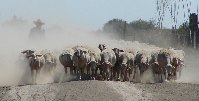 The herd of sheep goes to the Nagy-szik (Great Saline Field) in Felsőerek, Hungary